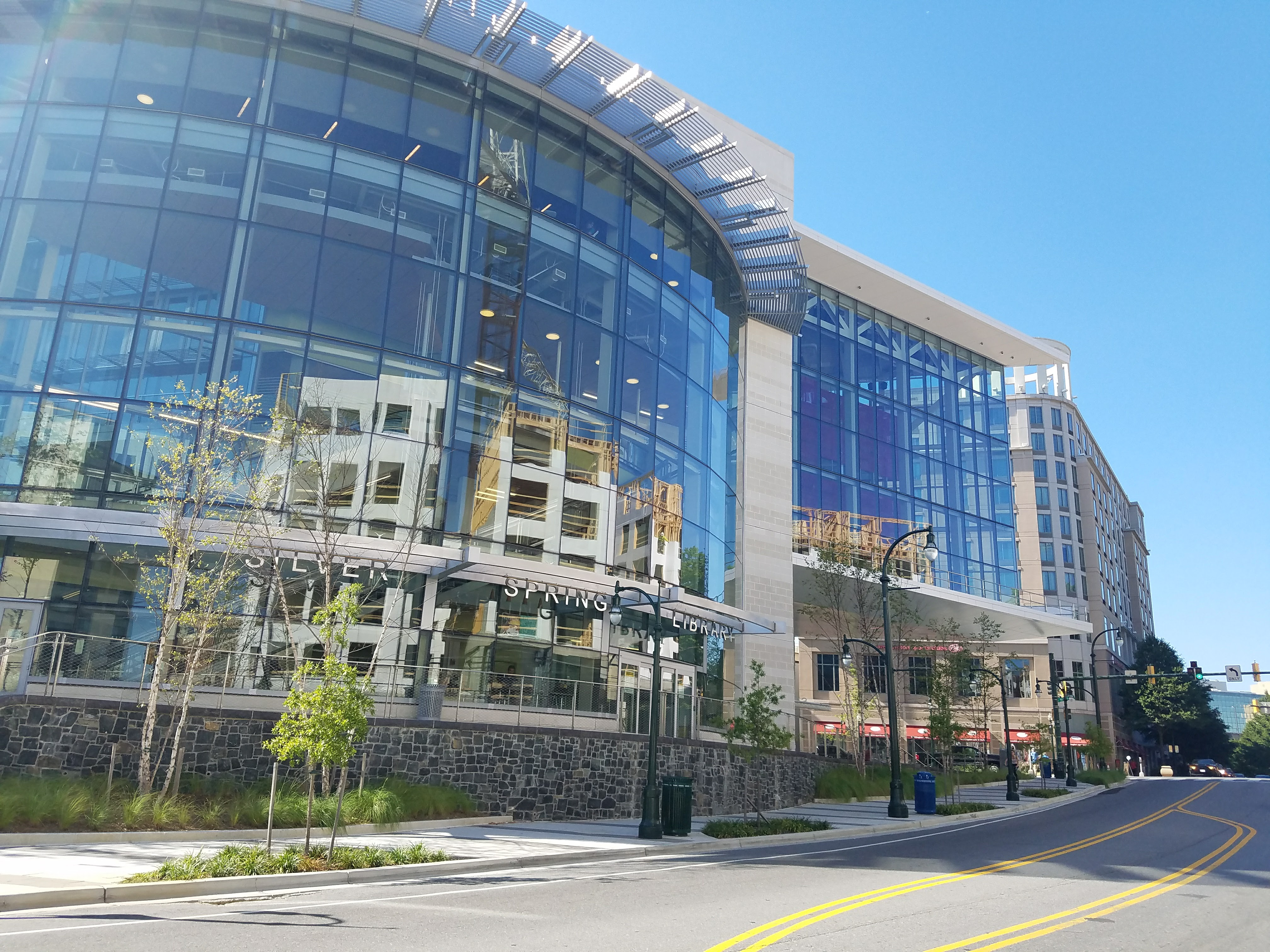 A view of the exterior of Silver Spring Library from across Fenton St.